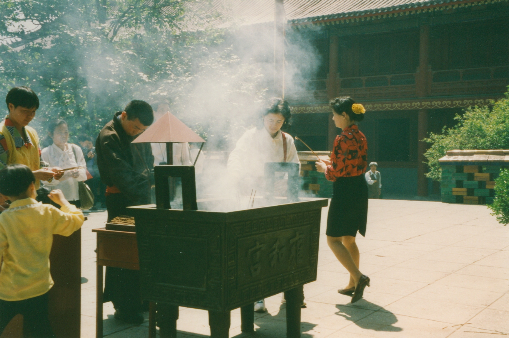 Beijing, Lama Temple, burning of incense sticks The Yonghe Temple , also known as the "Palace of Peace and Harmony Lama Temple", the "Yonghe Lamasery", or - popularly - the "Lama Temple" is a temple and monastery of the Geluk School of Tibetan Buddhism located in the northeastern part of Beijing, China. It is one of the largest and most important Tibetan Buddhist monasteries in the world. The building and the artworks of the temple combine Han Chinese and Tibetan styles. Building work on the Yonghegong Temple started in 1694 during the Qing Dynasty. (From Wikipedia